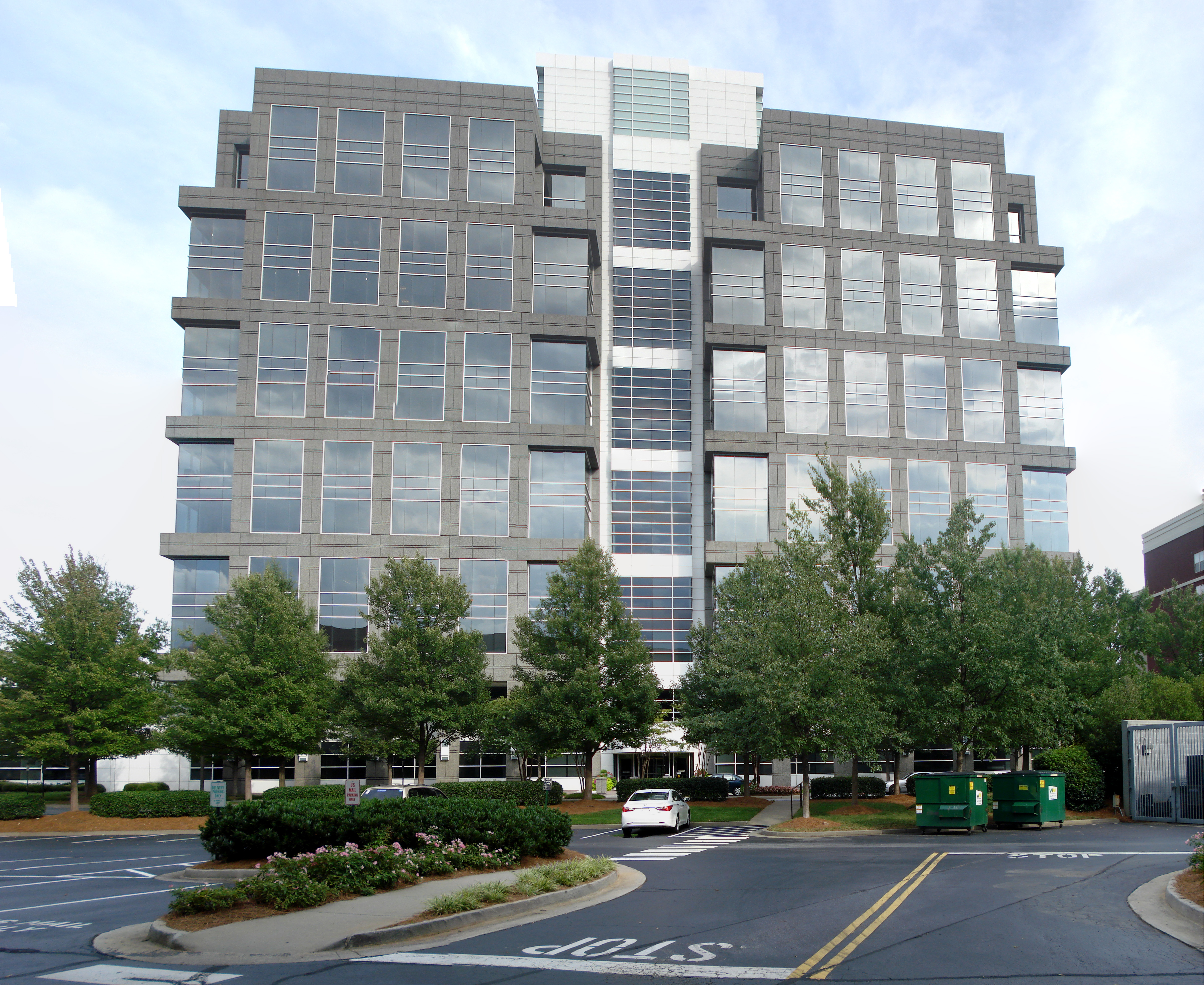 This building is the head office of AirWatch, Wendy's and Arby's